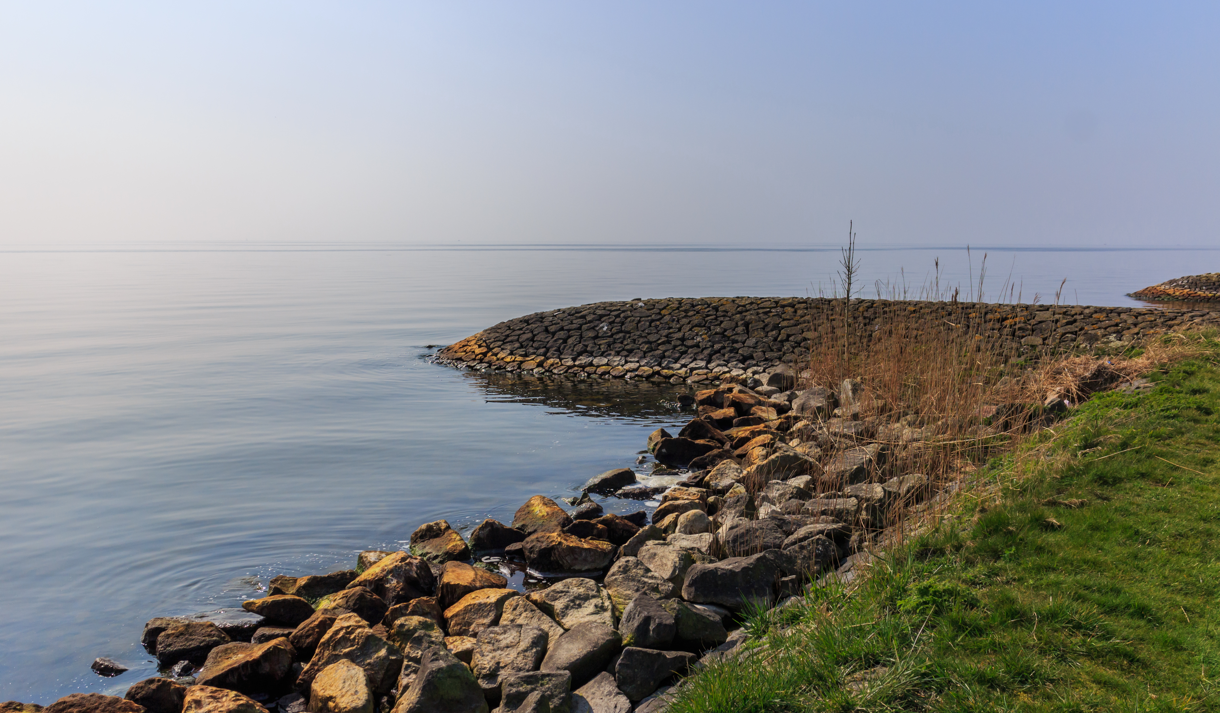 Reinforced embankment. Location. Port of Laaxum.